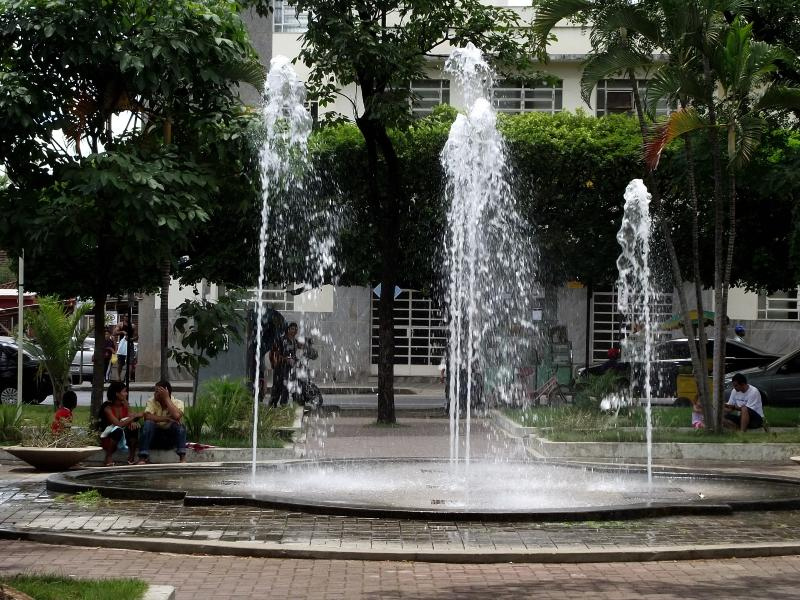 Matriz Square, in Montes Claros, Minas Gerais, Brazil.